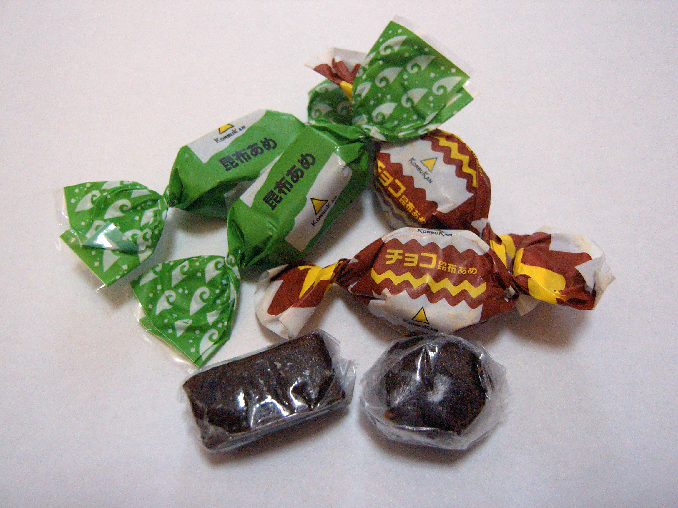 Kelp(kombu) candy & chocolate taste.